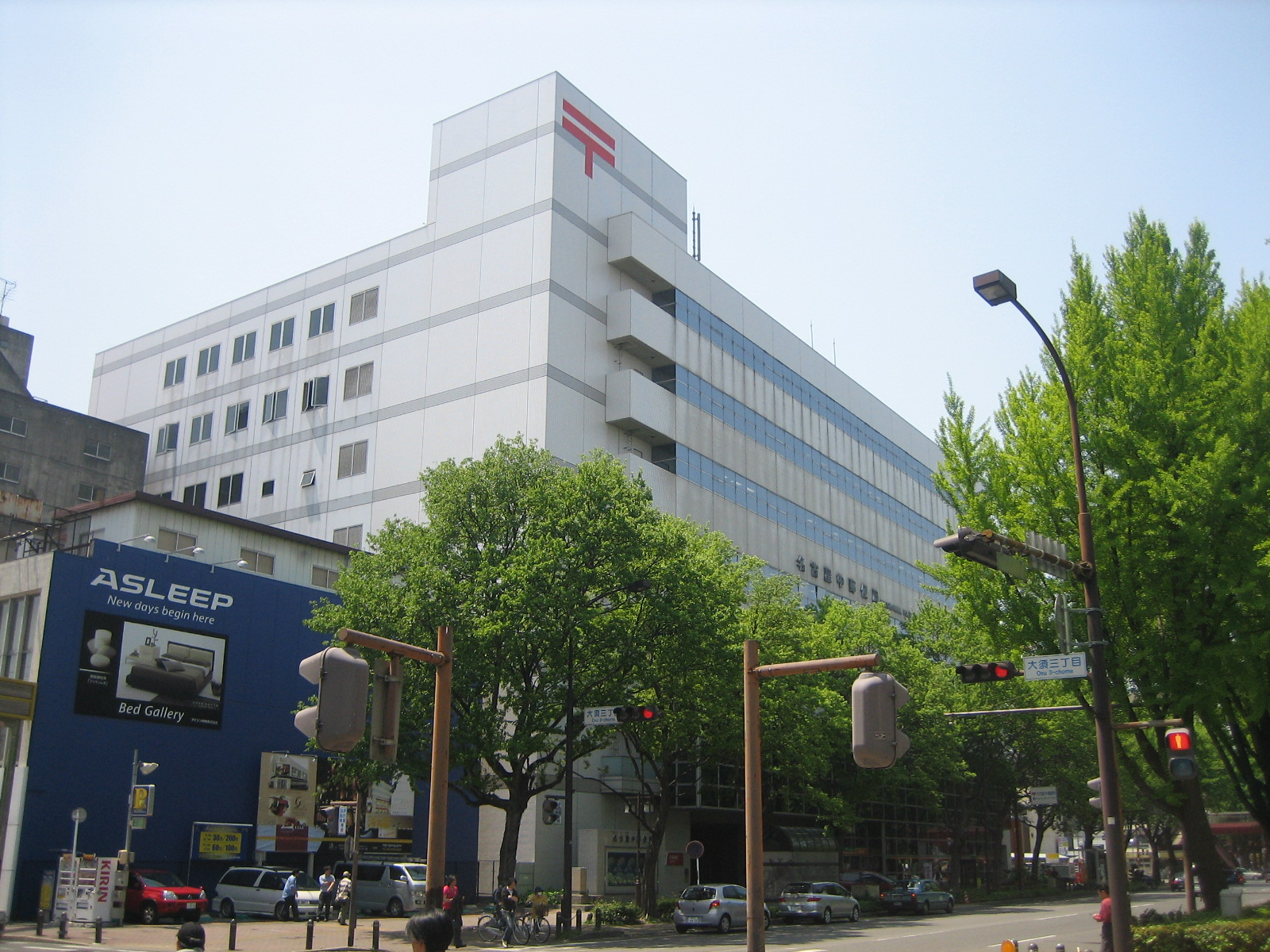 Nagoya-naka post office in Aichi, Japan